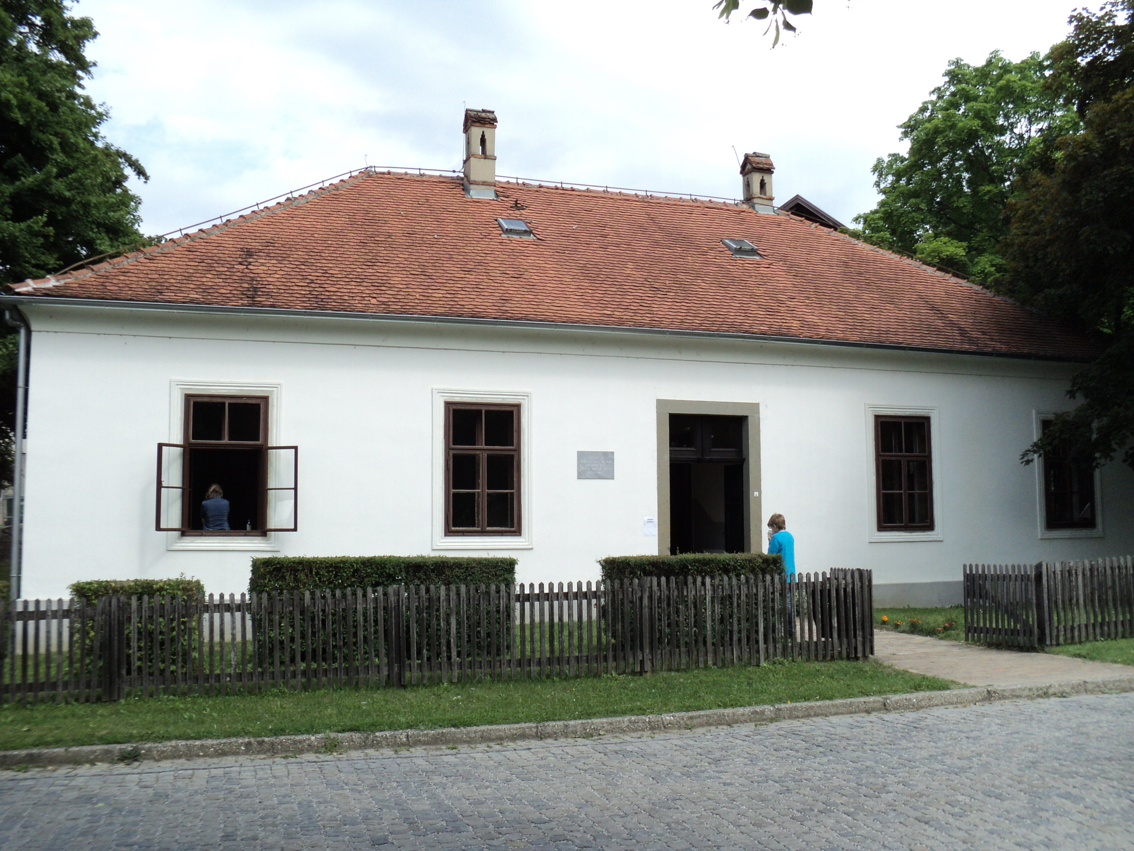 Old public school Museum in Kumrovec.